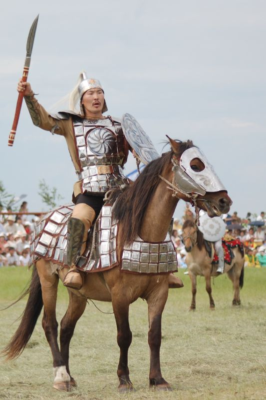 Mounted Sakha warrior. / Olonkho warrior. Yakutsk, Sakha, Russia.